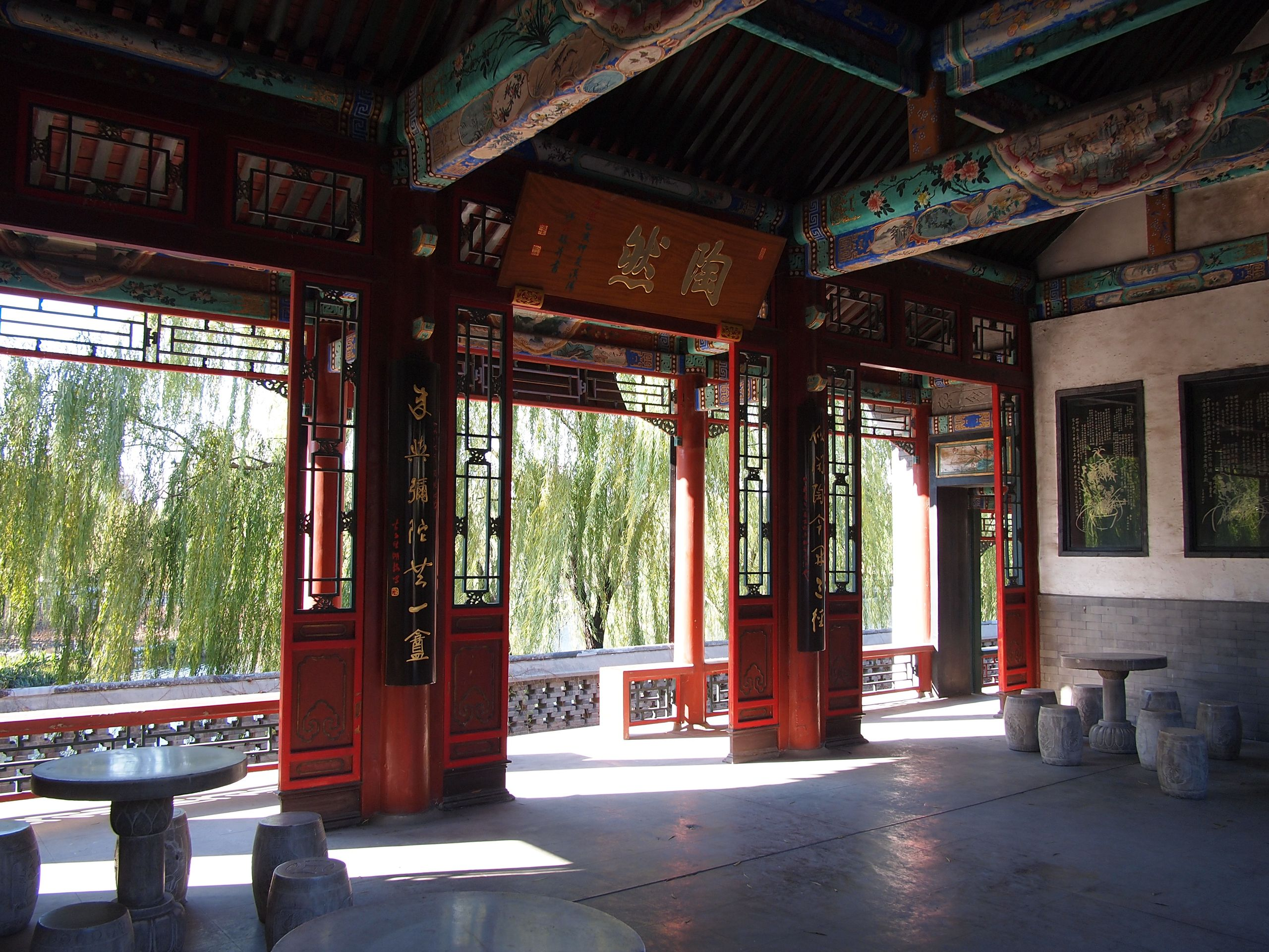 陶然亭 - Joyful Pavilion - 2011.11